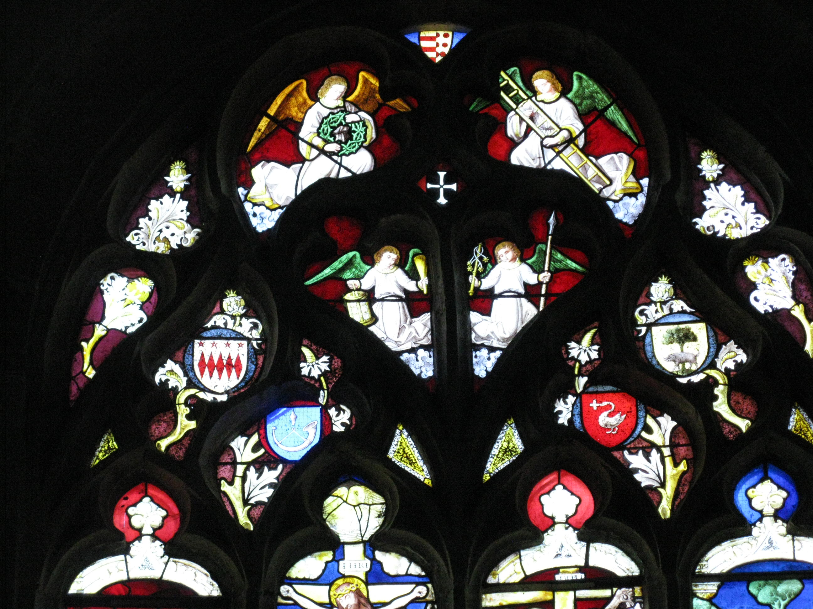 Blazons of the Lords of the municipality